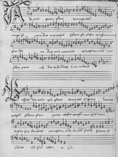 Kodex Specialnik p. 64 - beginning of Josquin Desprez's Ave Maria